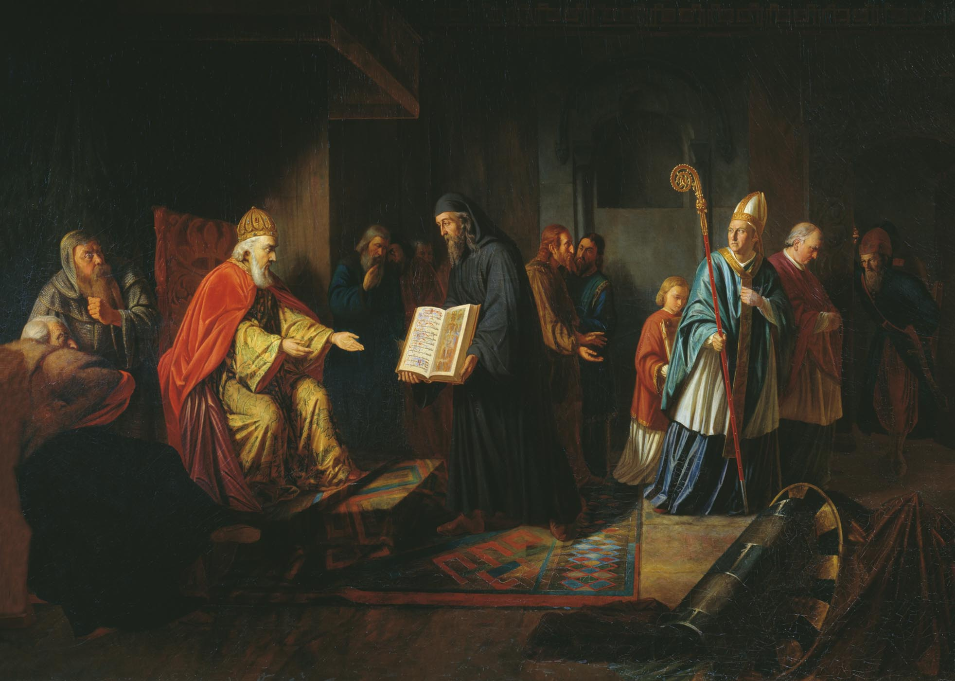 Ivan Eggink (1787—1867). Grand Prince Vladimir is choosing the religion Великий князь Владимир выбирает веру